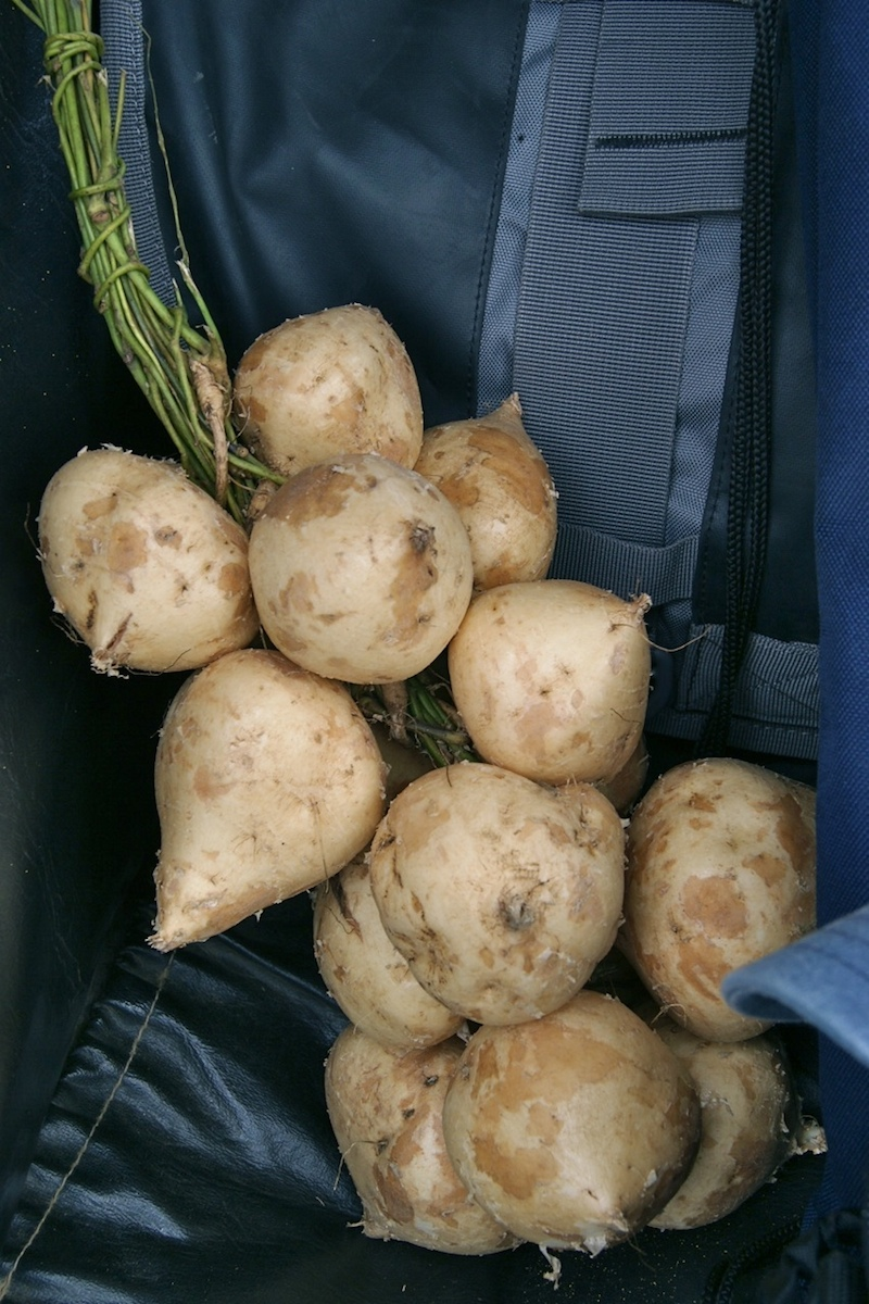 Singkamas (Jicama or Mexican Turnip)